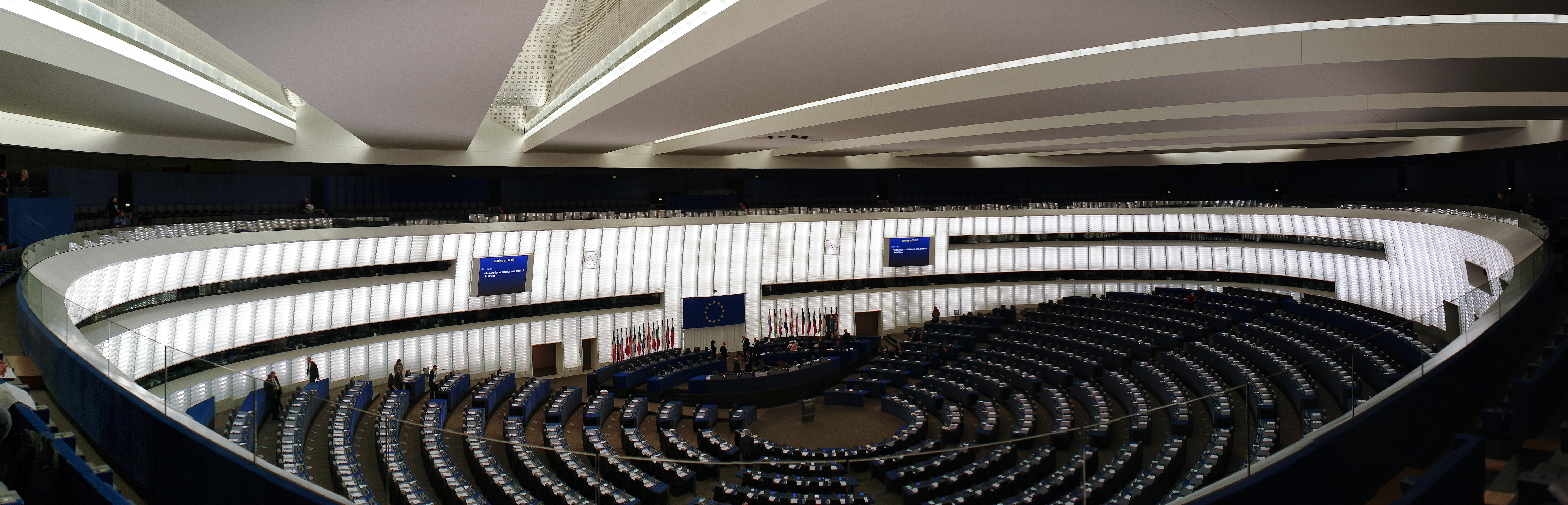 European Parliament, Plenar hall